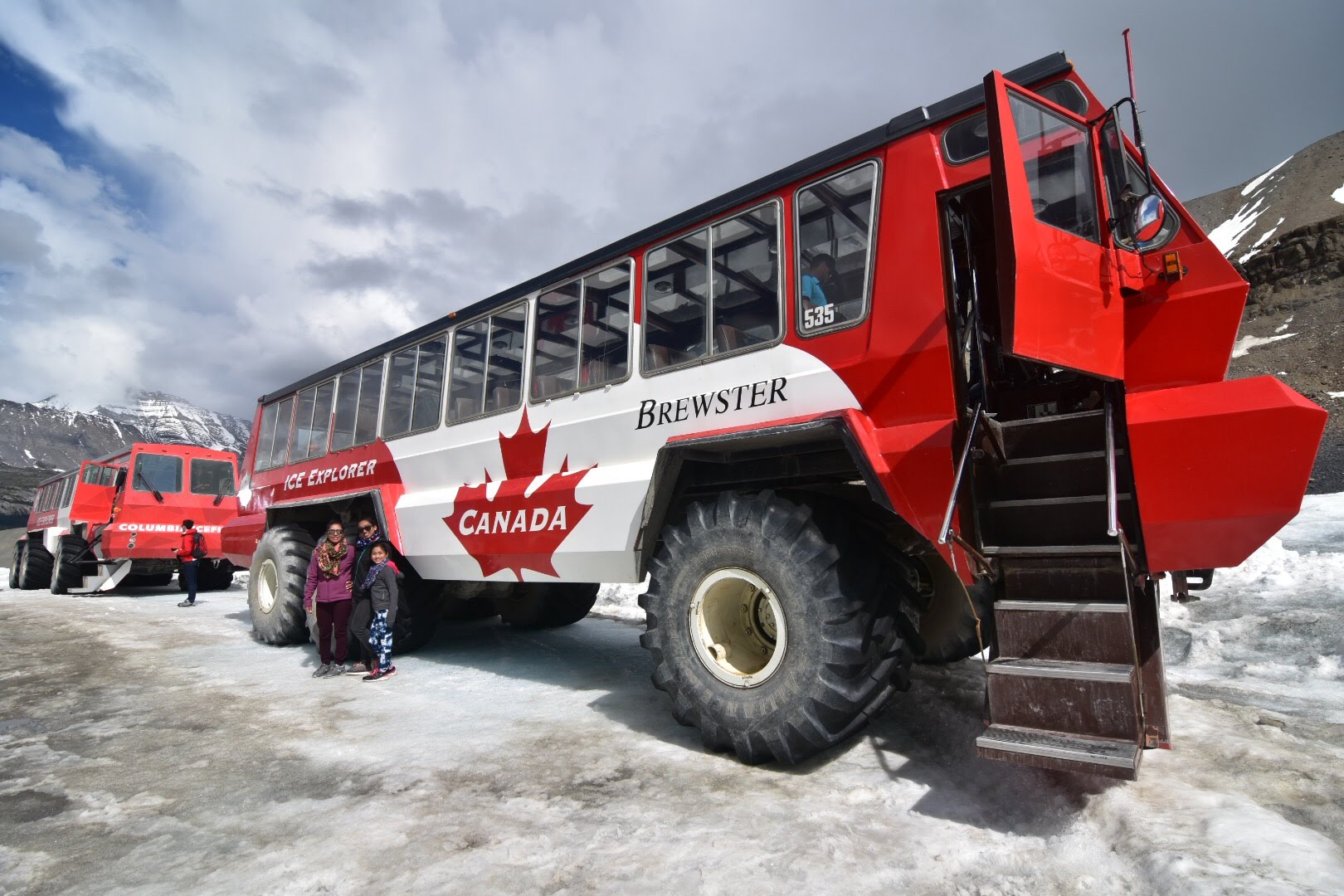 Photograph of Tourist Bus to Columbia Icefields in 2018